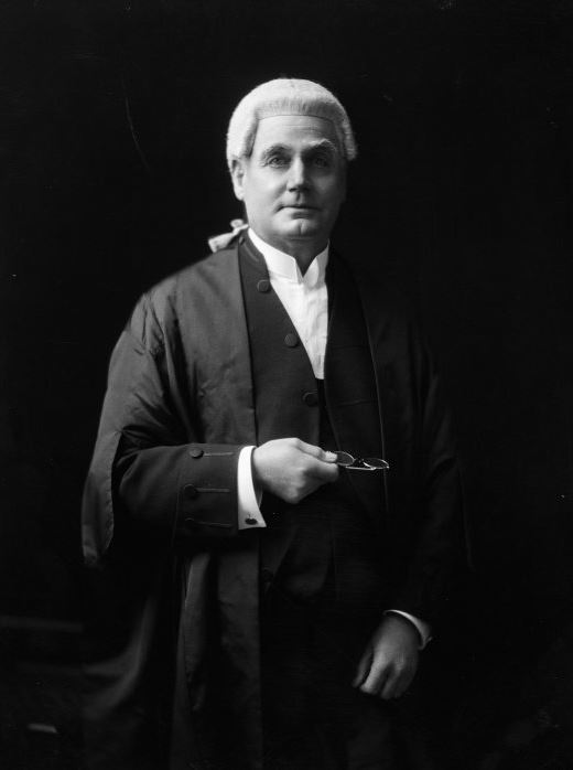 Formal portrait of Sir Charles Perrin Skerrett, Chief Justice of the Supreme Court. He is wearing his gown and wig. He is holding his glasses in his hand, and is looking straight at the camera. Photograph taken by Stanley Polkinghorne Andrew during the 1920s.